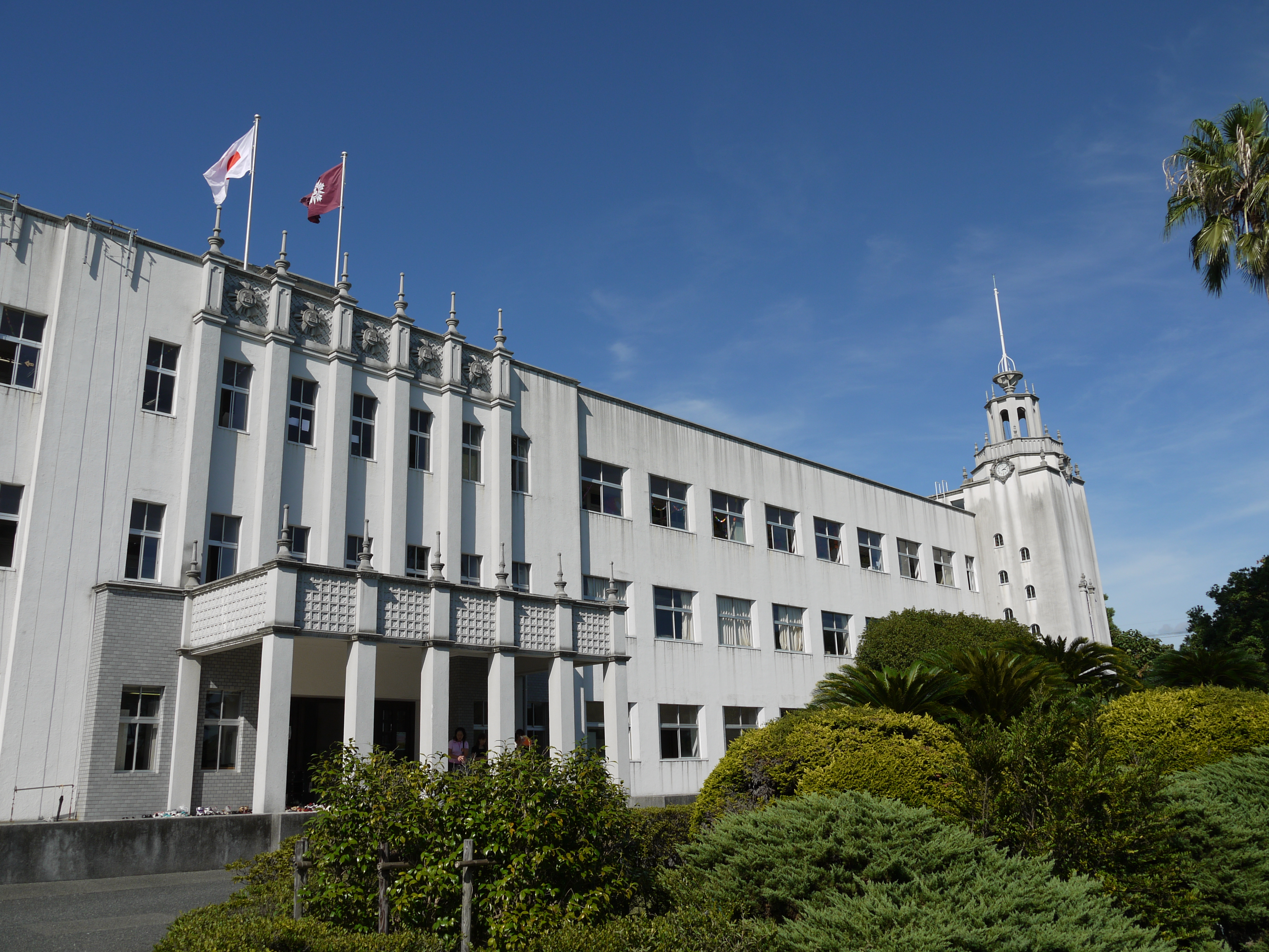 == Licensing: ==